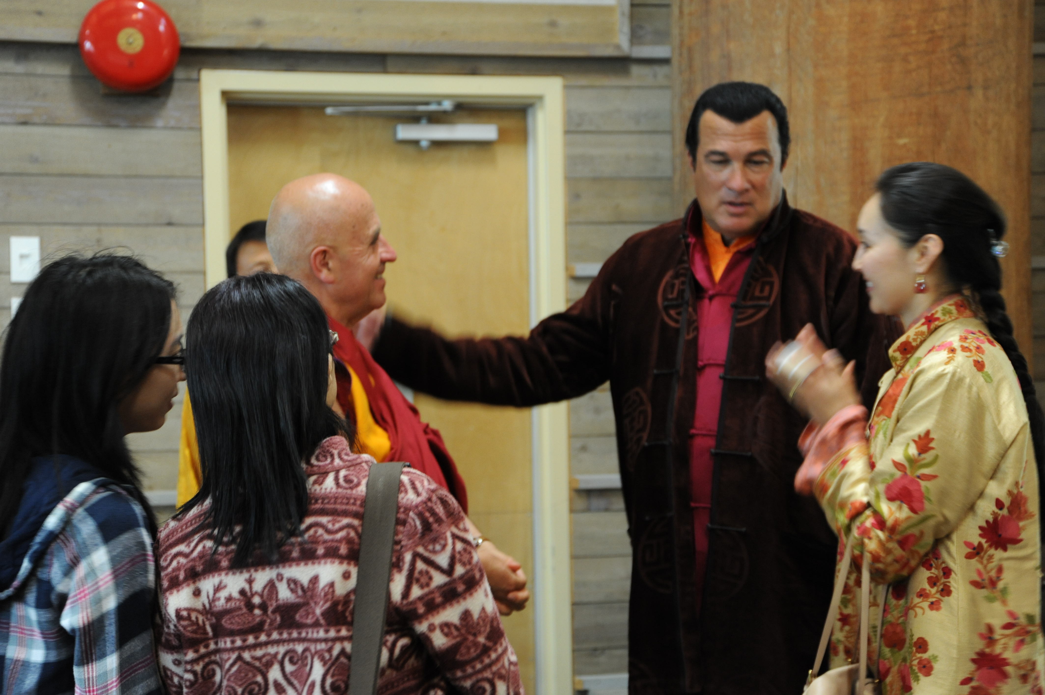 Chungdrag Dorje (Steven Seagal) introduces his wife Elle to Matthieu Ricard (author, photographer, Buddhist monk), Centennial of Dilgo Khyentse Yangsi Rinpoche, Lotus Speech Canada, First Nations Longhouse, University of British Columbia, Vancouver BC